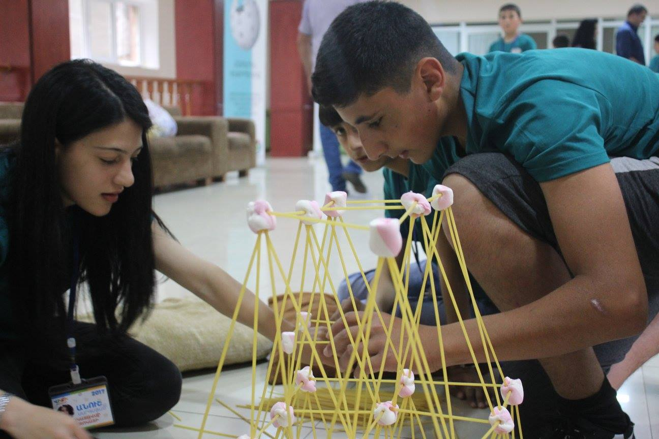 Summer WikiCamp 2017 (I)